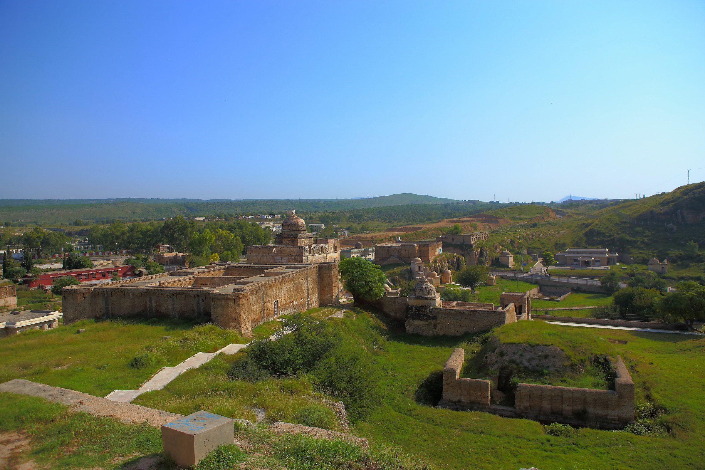 Satghara Temple This is a photo of a monument in Pakistan identified as the PB-38